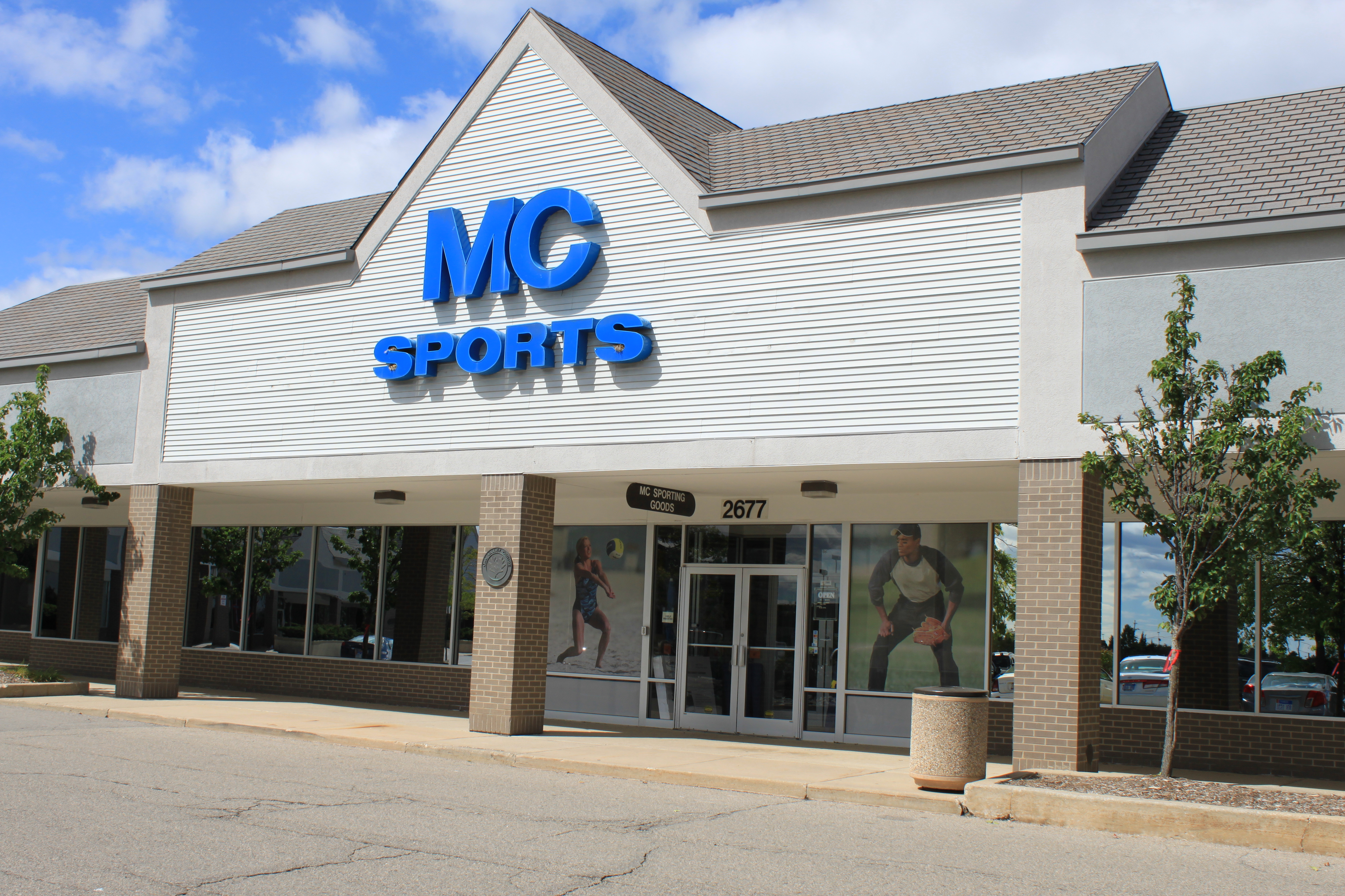 MC Sports store, Oak Valley Shopping Center, 2677 Oak Valley Drive, Ann Arbor, Michigan. This Store has relocated to the nearby Briarwood Mall Ann Arbor, Michigan